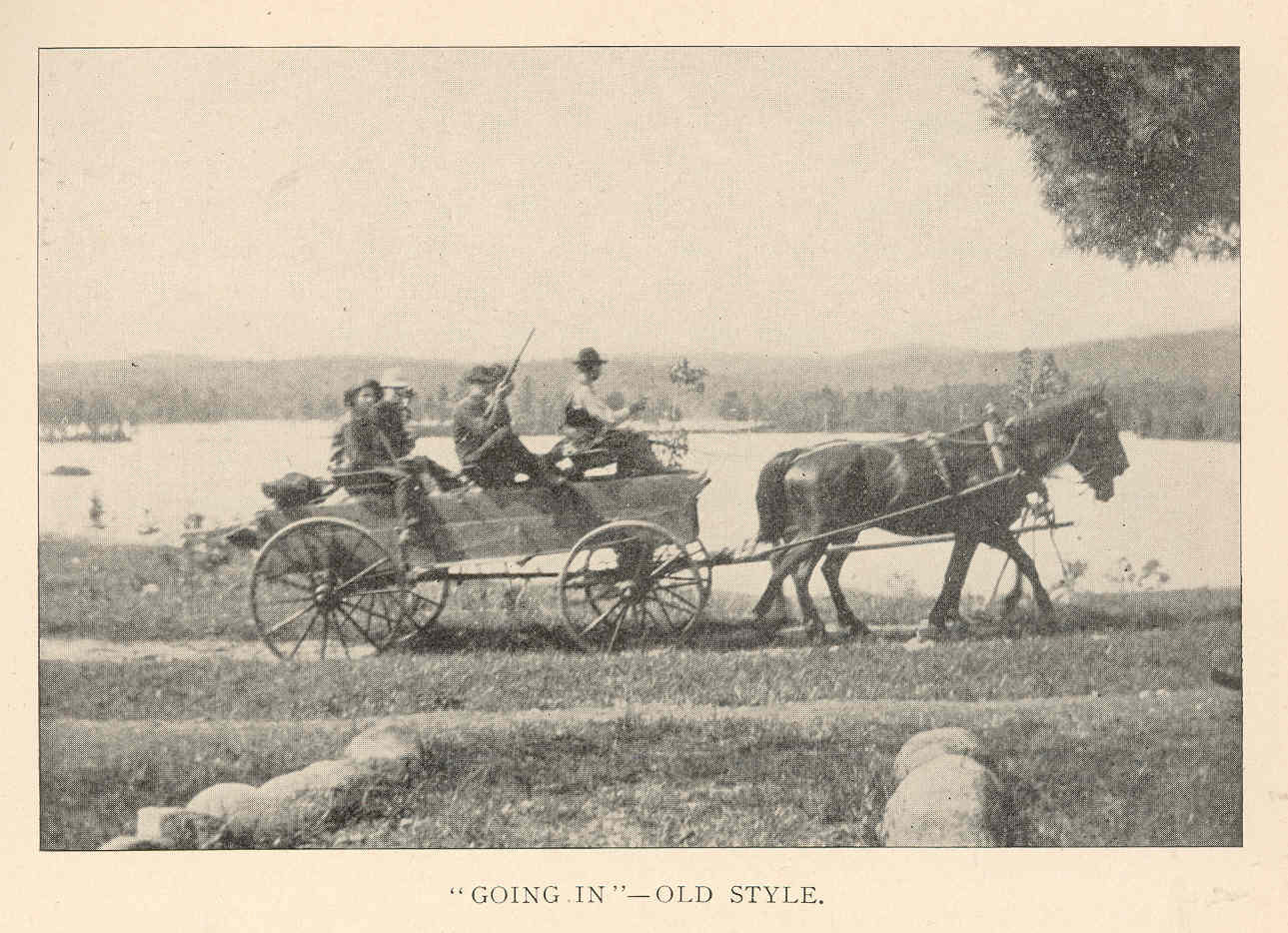 Going In--Old Style Subject: Campers (Persons), Wagons, Draft horses Tag: People